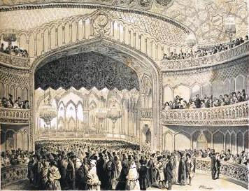 Opening day in 12 april 1851 Tbilisi Opera House in Tbilisi